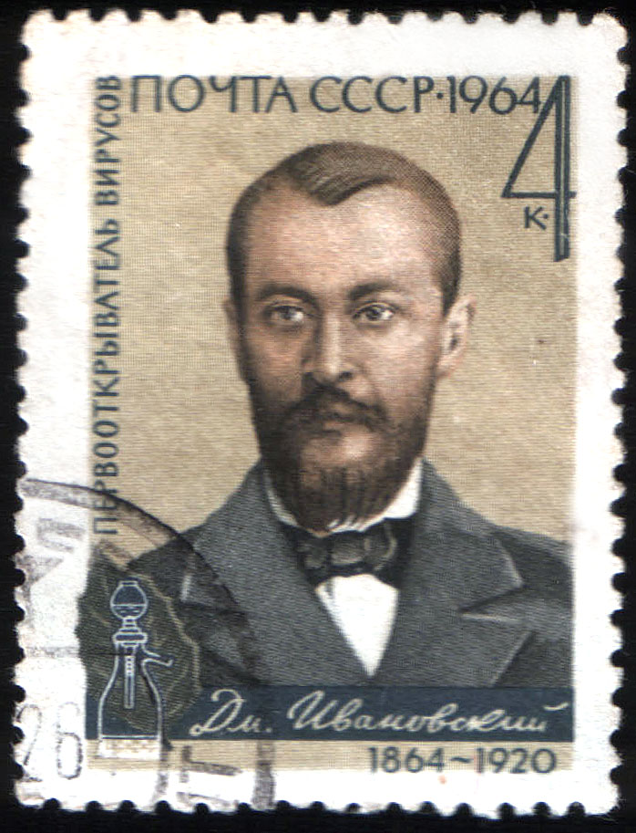 USSR stamp, D. Ivanovsky, 1964, 4 k.